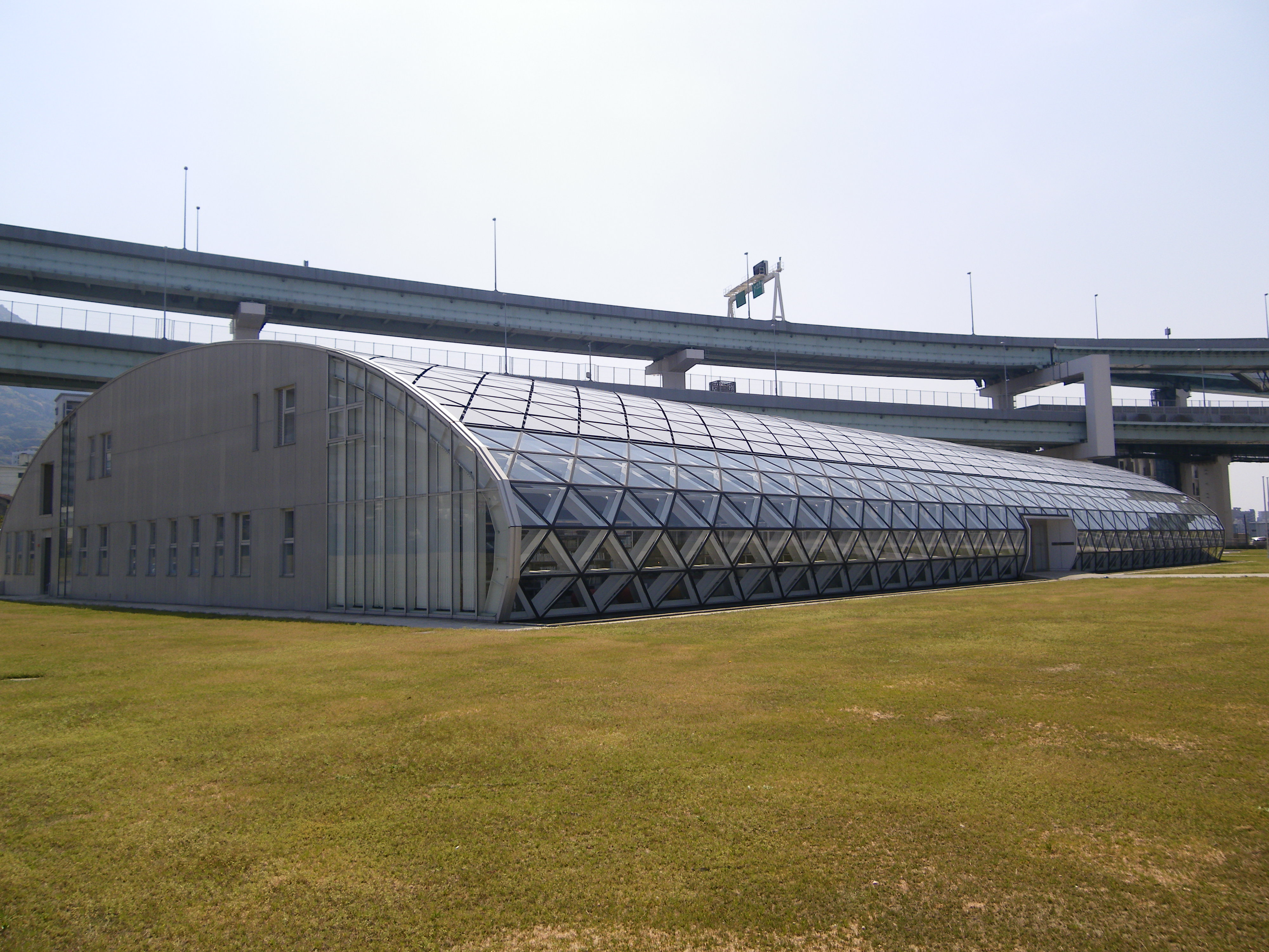 Kitakyushu Innovation Gallery and Studio (KIGS).